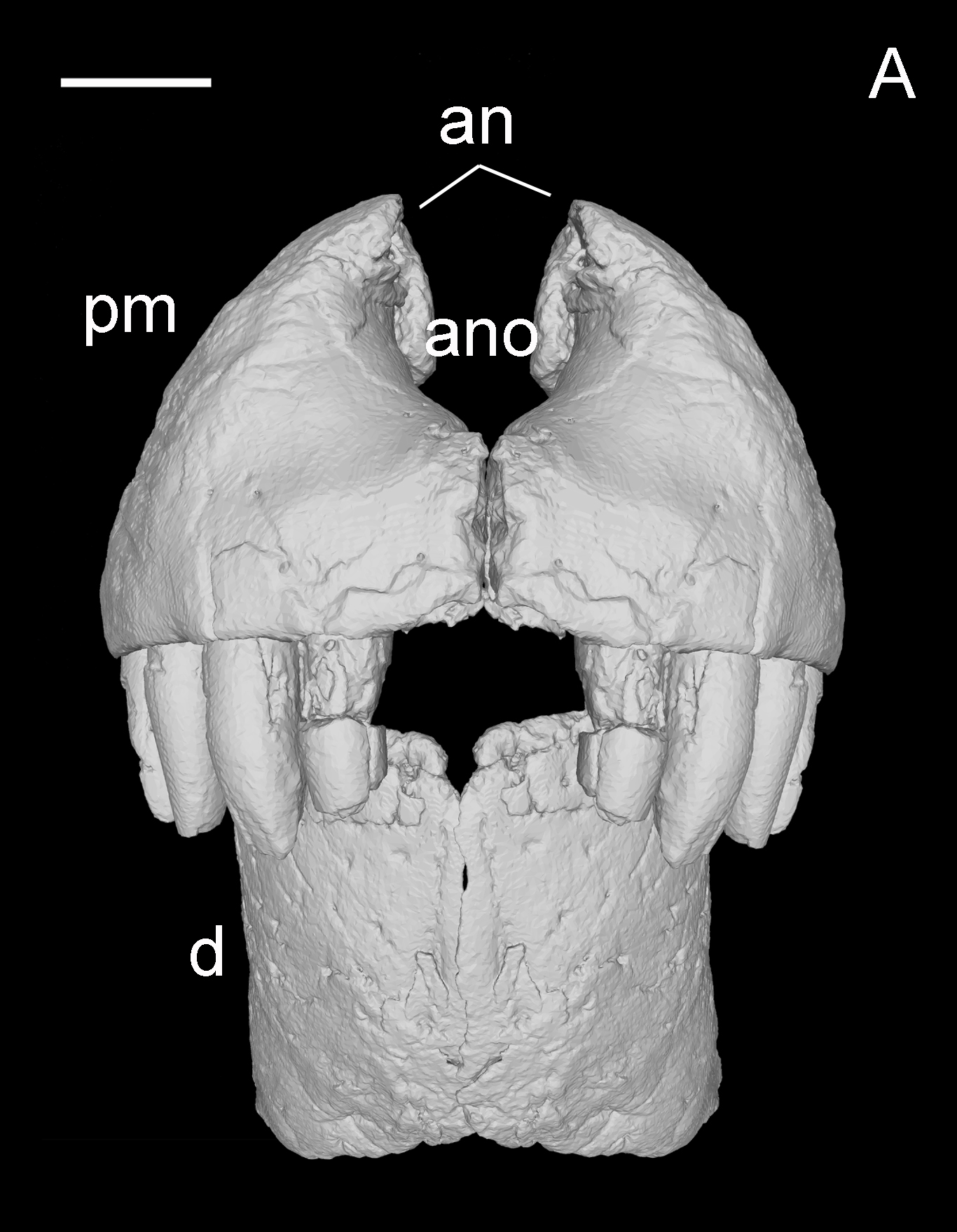 3-D reconstruction of the snout of Razanandrongobe sakalavae in rostral view (A), including the left dentary (MHNT.PAL.2012.0.6.1), the right premaxilla (MHNT.PAL.2012.0.6.2), and their counterlateral copies obtained from CT data.